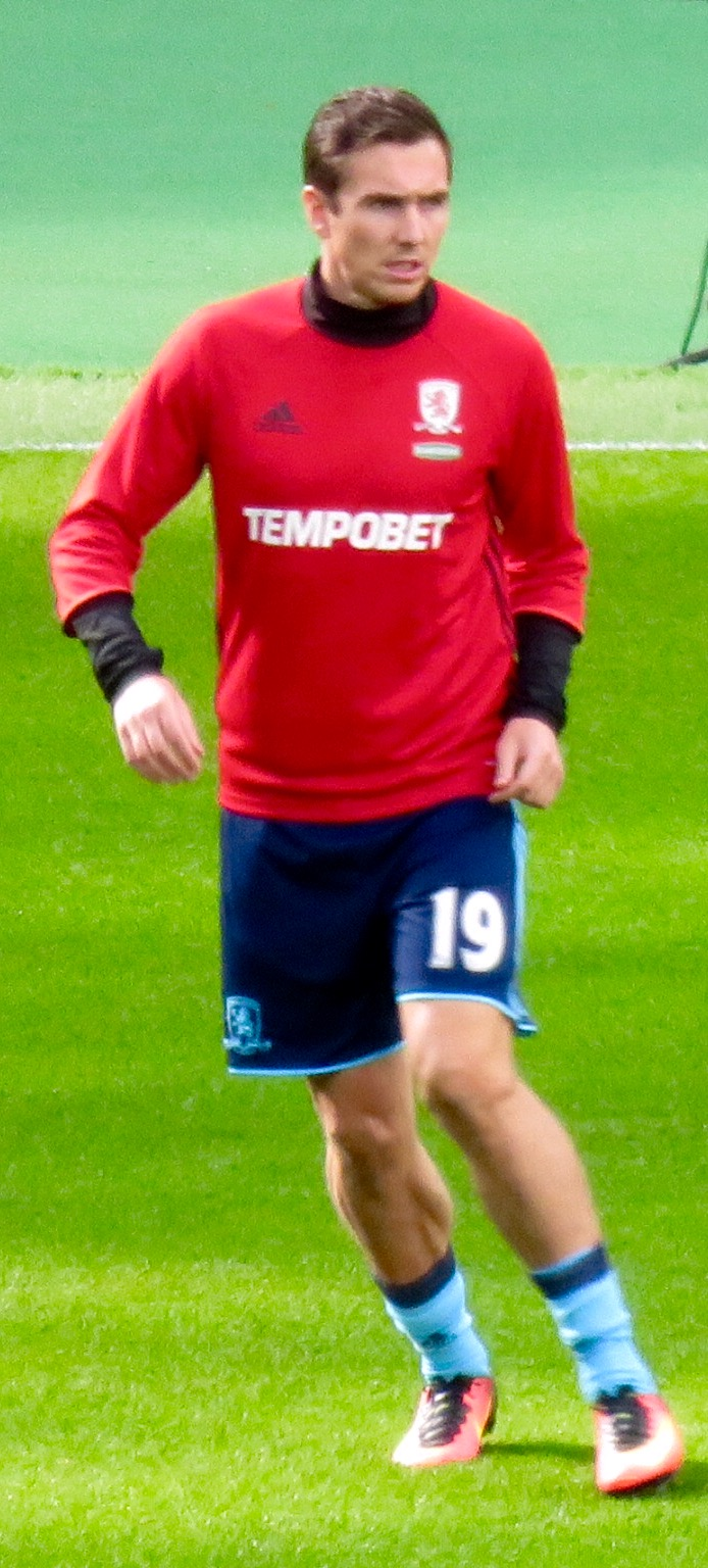 Stewart Downing of Middlesbrough warming up at the London Stadium, before their Premier League and against West Ham United